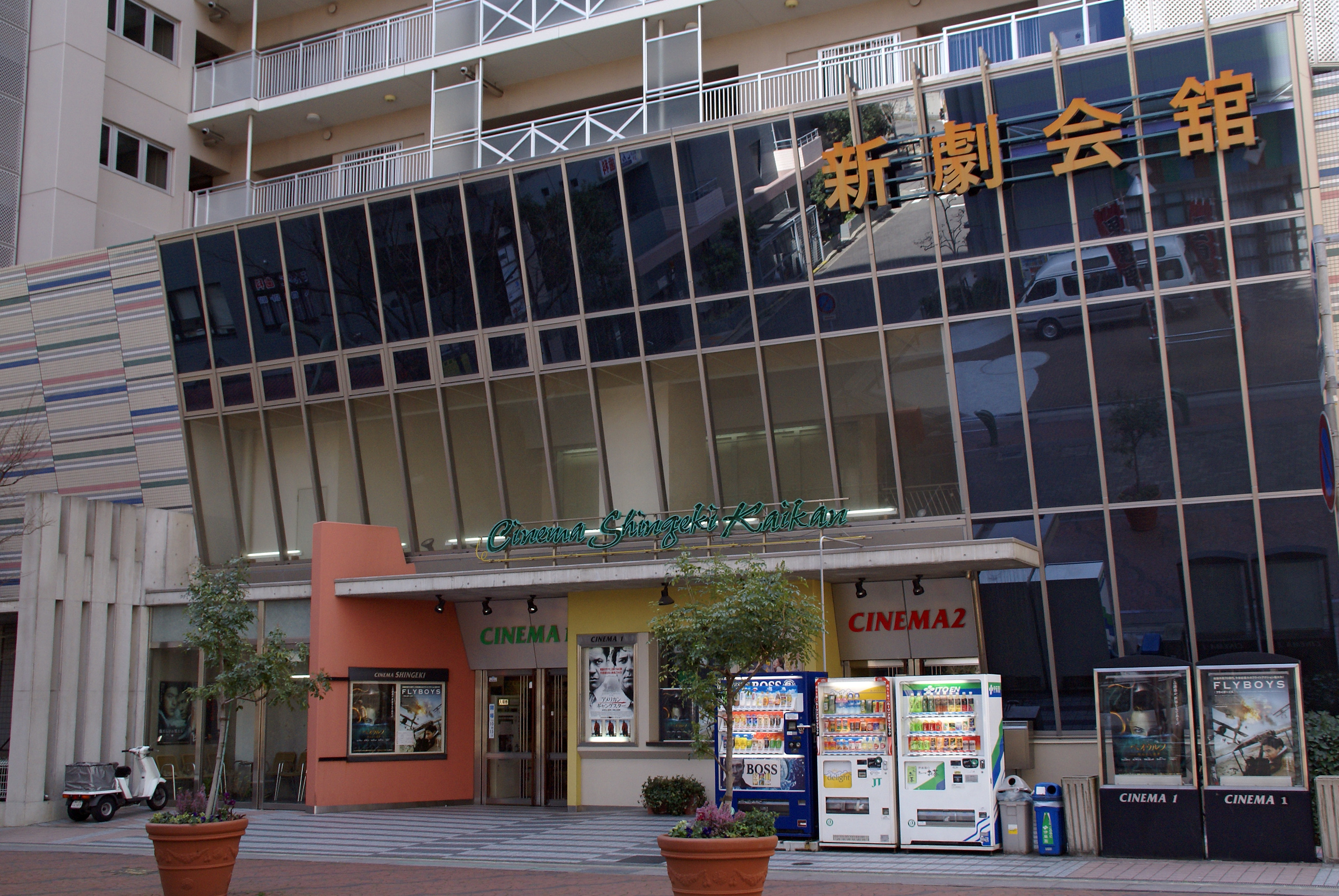 Shingeki-kaikan in Kobe, Hyogo prefecture, Japan